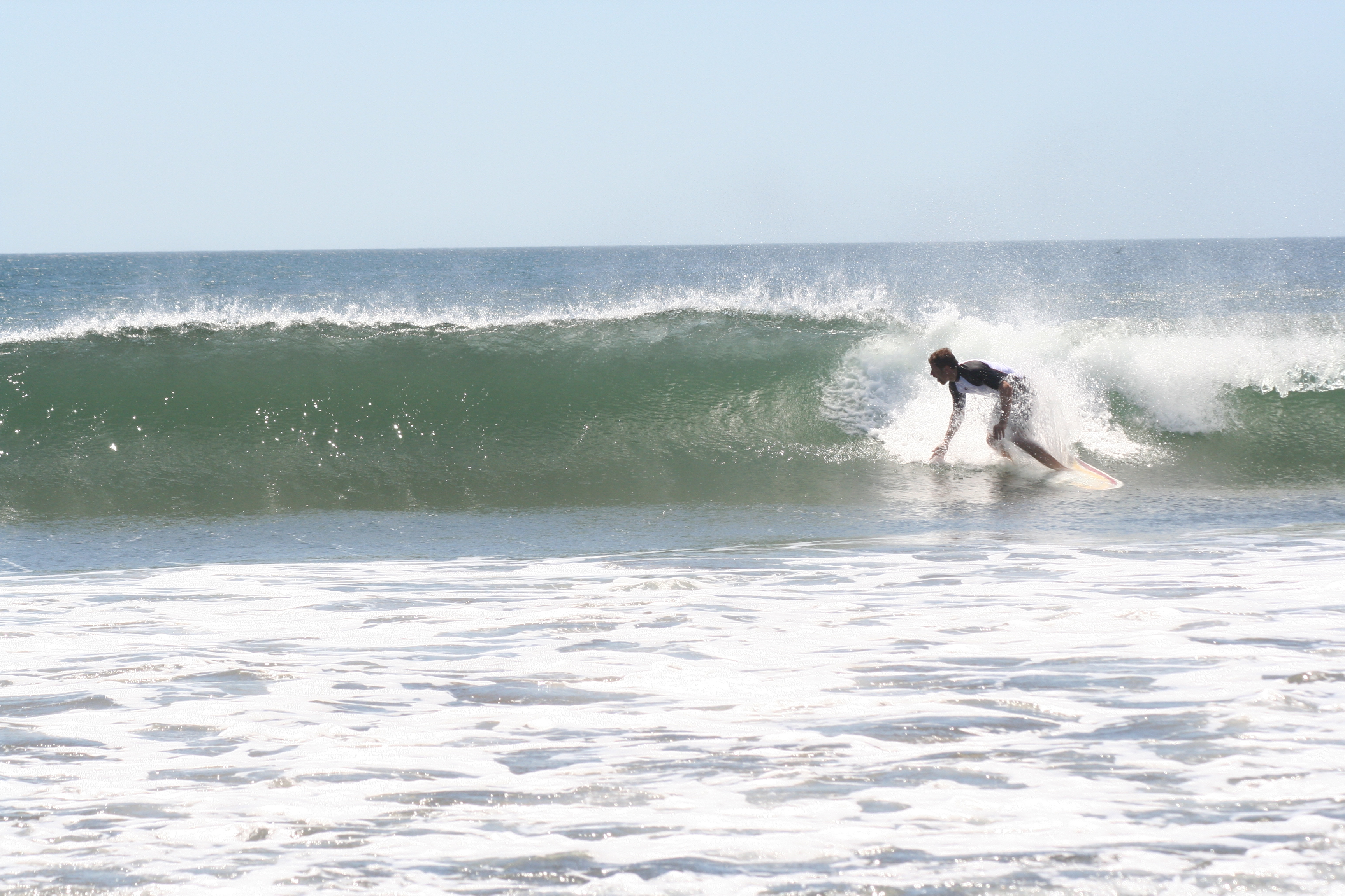 Surfing in Witch's Rock, Guanacaste, Costa Rica.